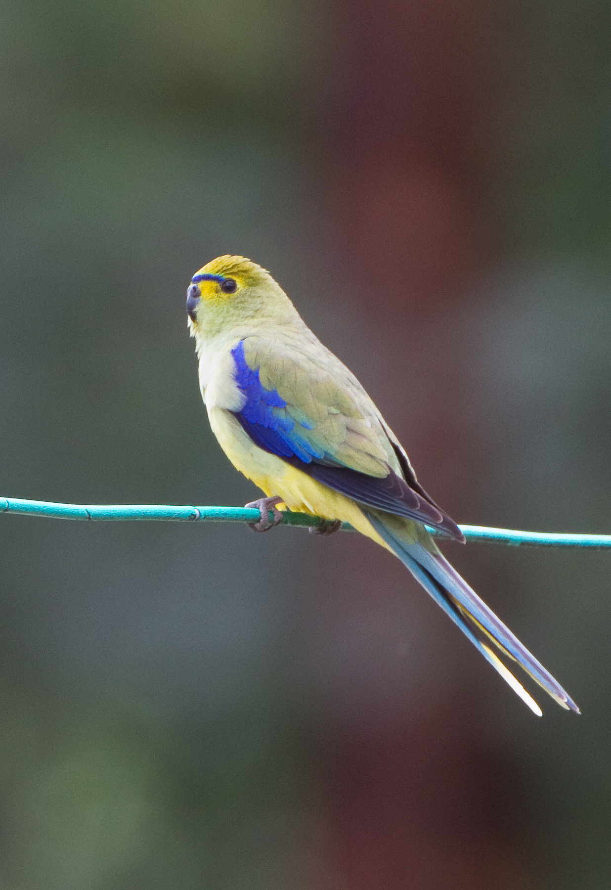 Blue-winged Parrot (Neophema chrysostoma), Flagstaff Gully, Hobart, Tasmania, Australia